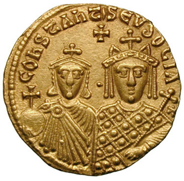 Basil I, AV Solidus. Constantinople mint. Reverse. COhSTAhT S EVdOCIA, crowned facing busts of Constantine, beardless, on left, and Eudocia Ingerina on right: Constantine wears chlamys and holds globus cruciger, while his stepmother wears loros and holds cruciform scepter; between their heads, cross. This is an unusual issue in that it portrays the empress Eudocia. If the date of AD 882 is correct, this is a memorial issue struck at the time of her death. As an alternative, Grierson has suggested it may be a coronation issue from 868.